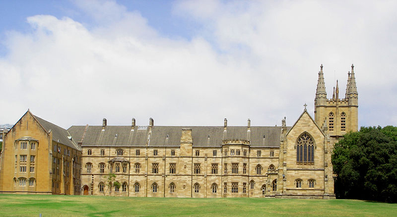 St John's College, University of Sydney. Author: John Polding